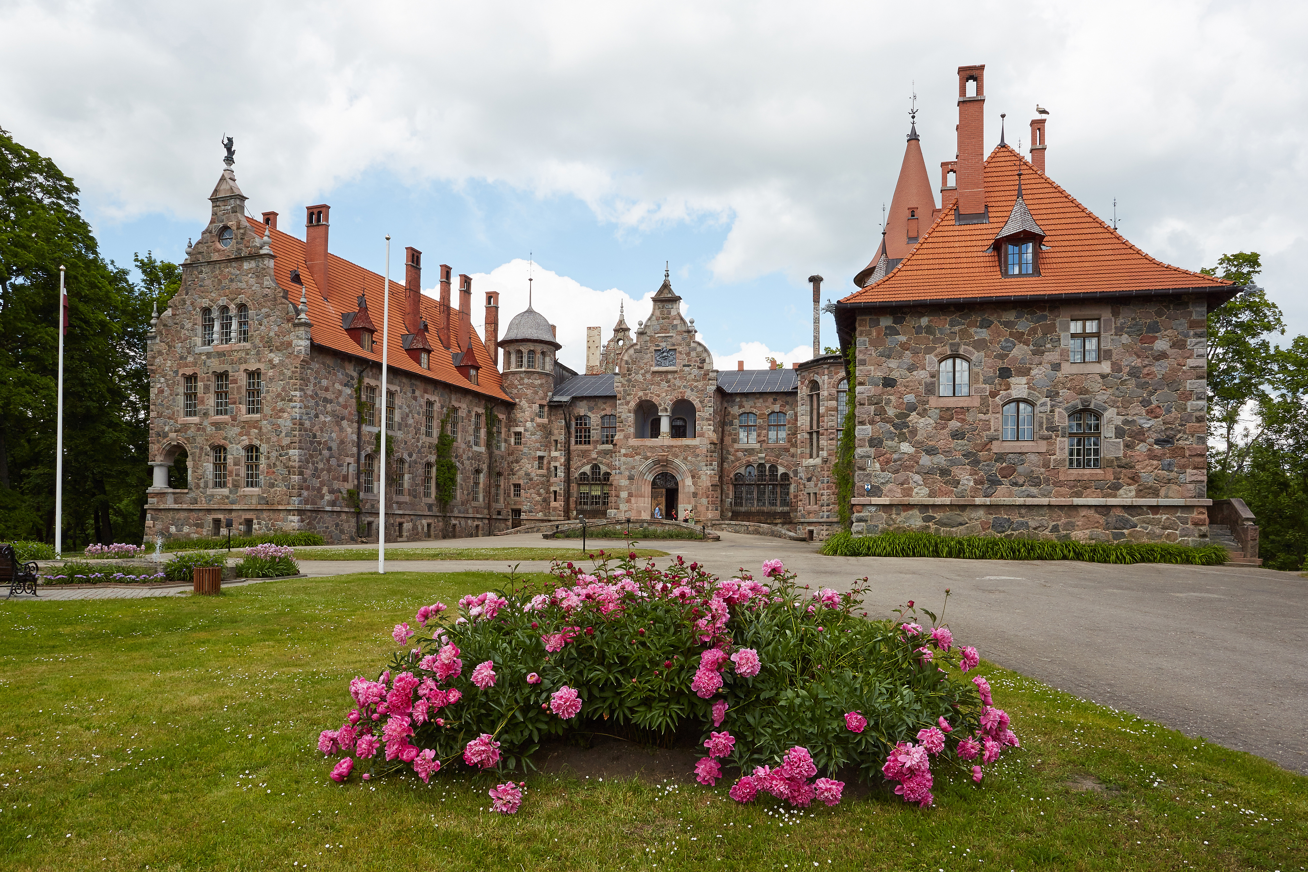 Cesvaine Castle, 2015